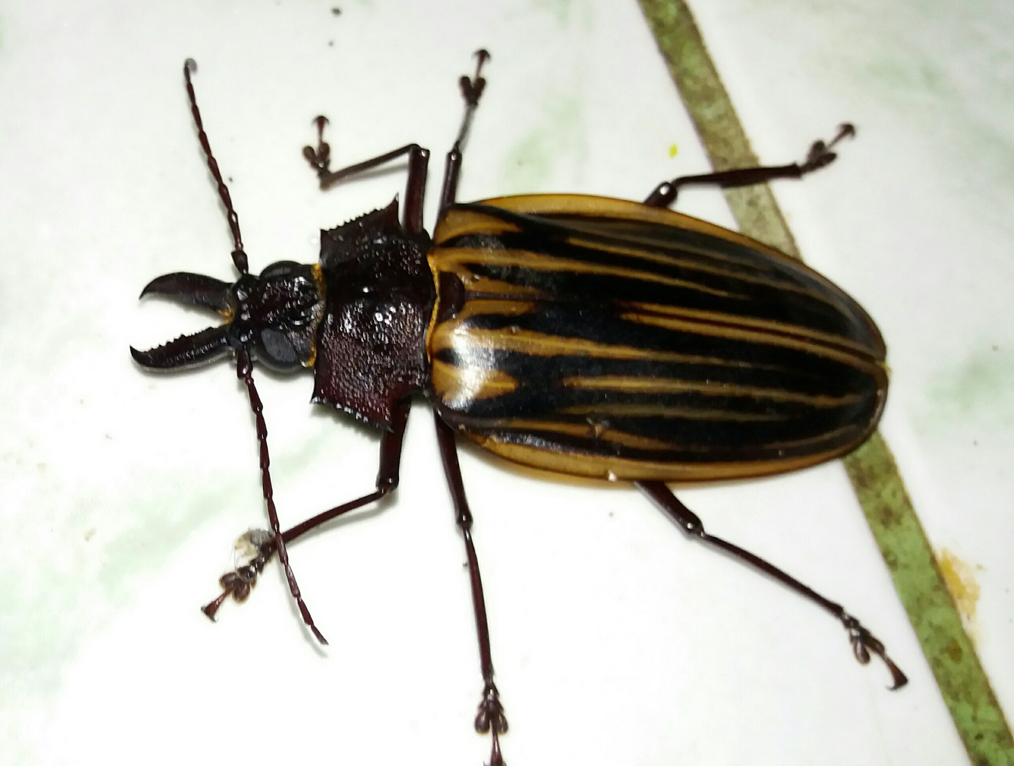 Macrodontia, genus of American long-horned beetles of the subfamily Prioninae